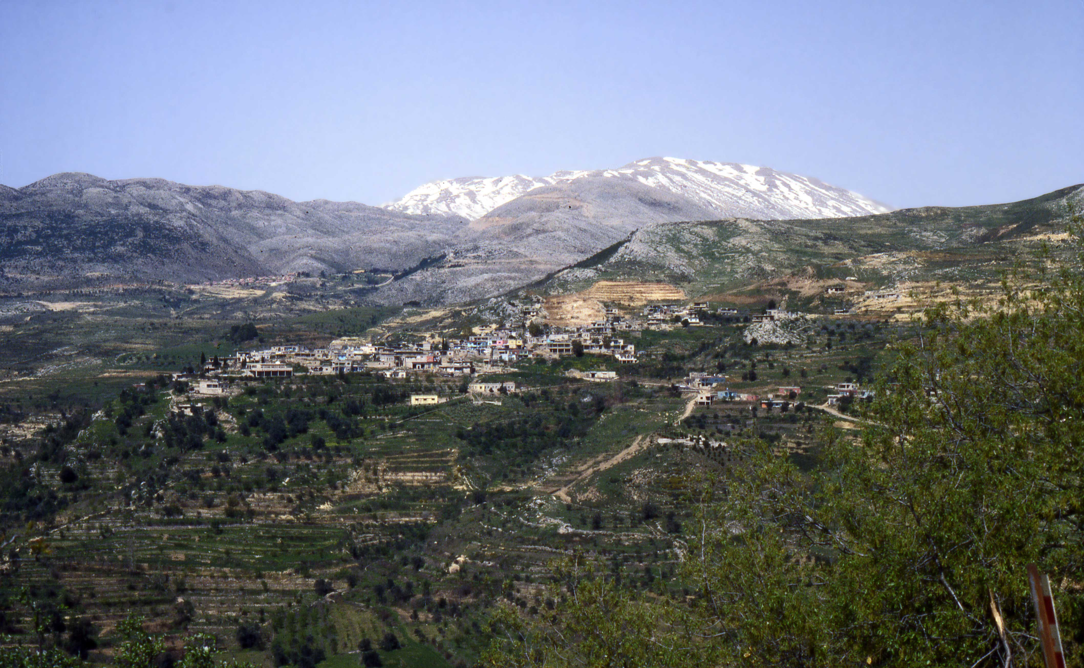 The Druze village of Ein Qiniyye in the Golan Heights below Mt Hermon.